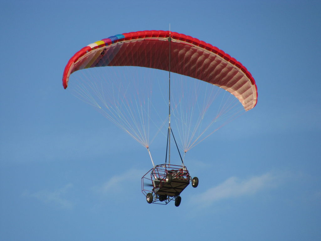 A picture of the Maverick flying car in development by I-TEC.